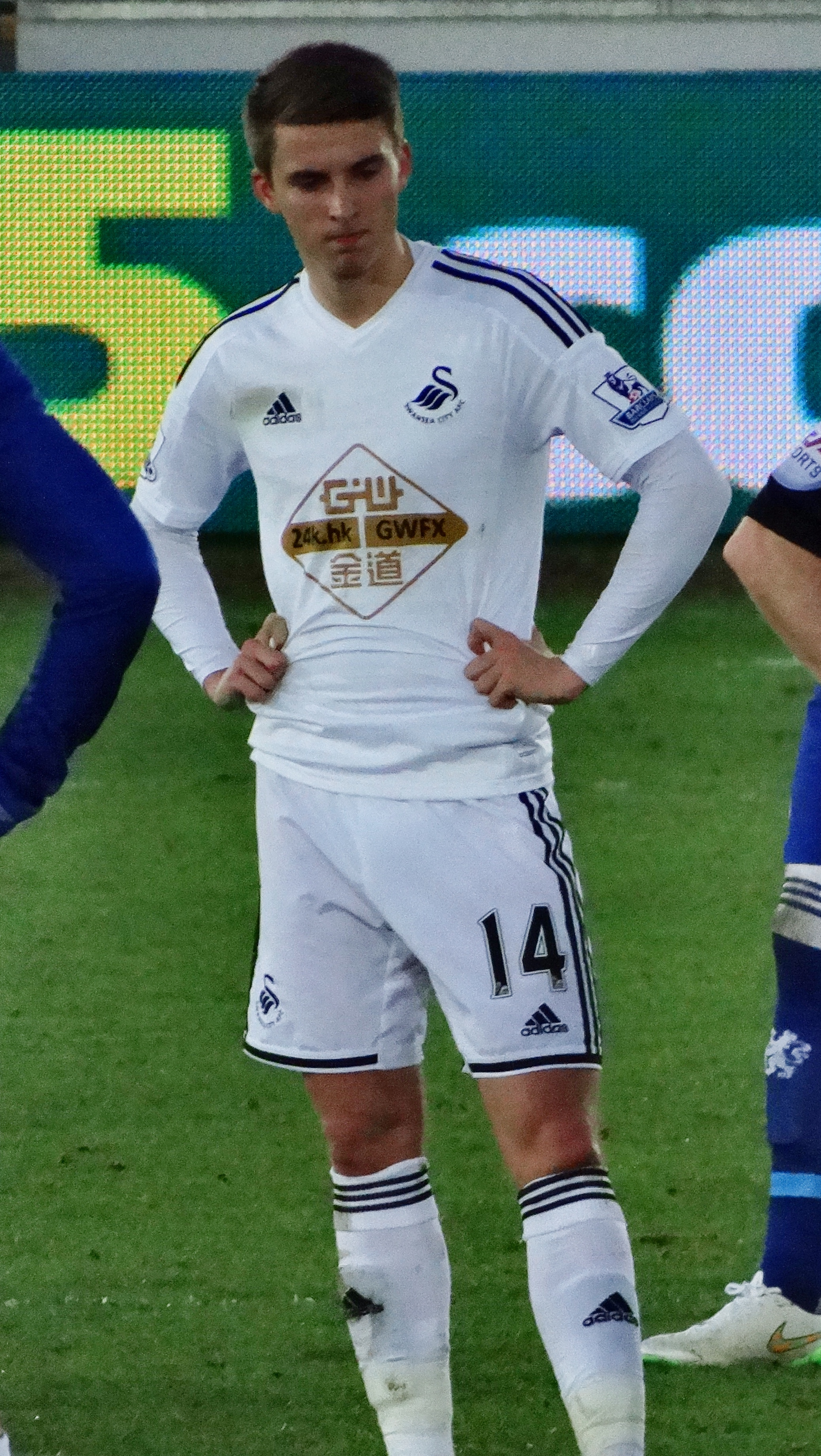 Tom Caroll playing for Swansea